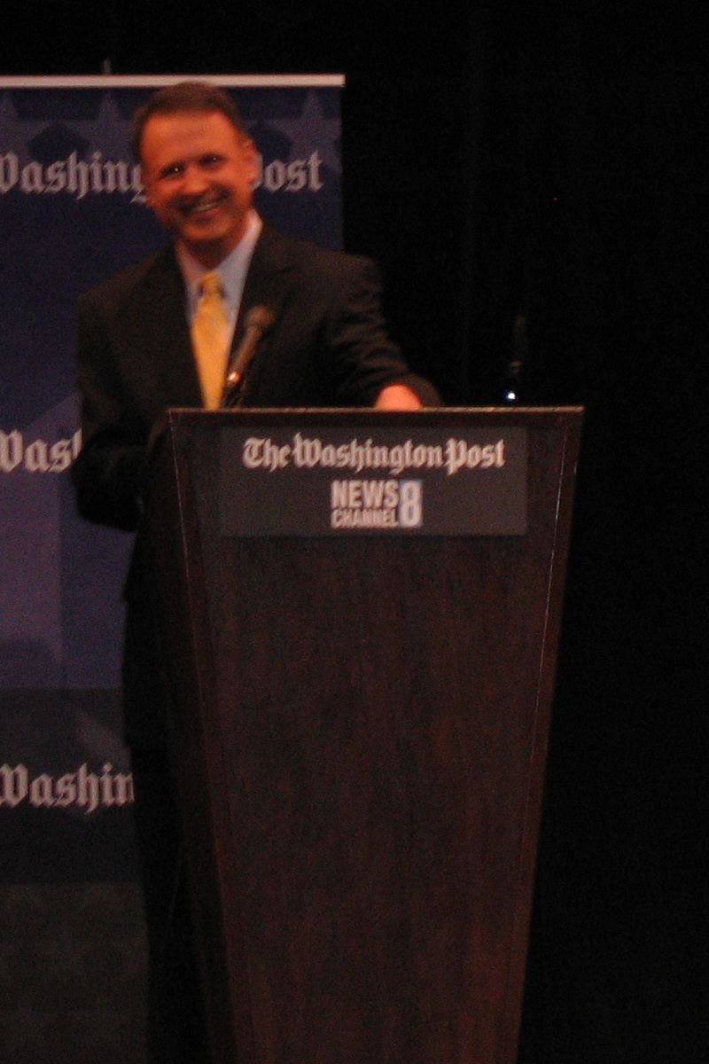 Creigh Deeds participating at the 2009 Washington Post Primary debate held in Annandale, VIrginia.